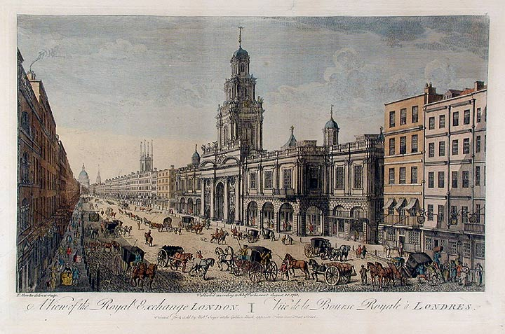 View of the Royal Exchange, London by Thomas Bowles, 1751.